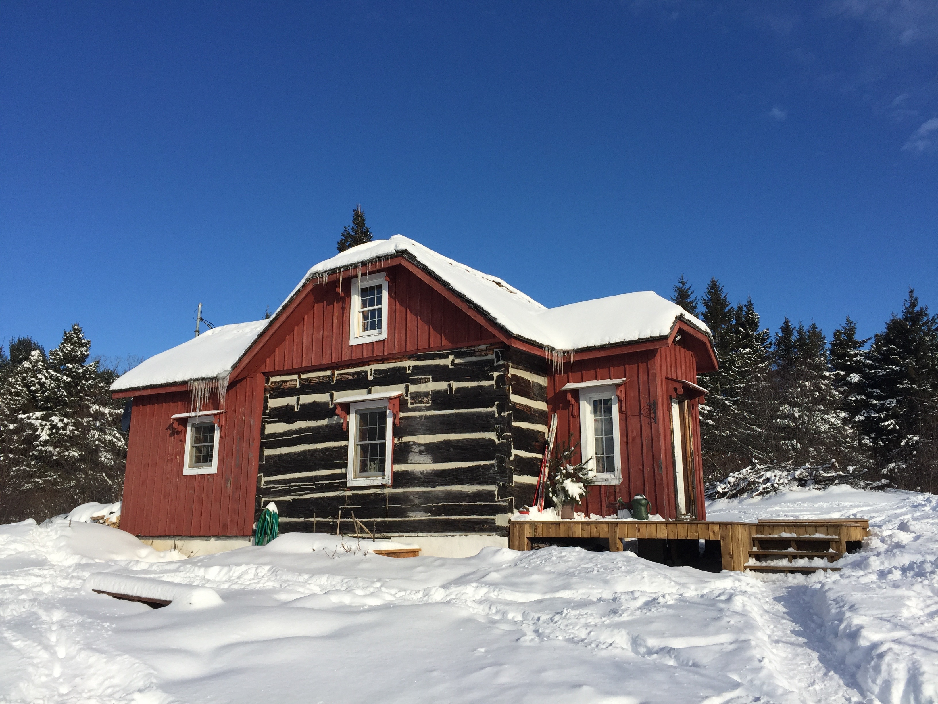 The "Little Red House" built by Tiberius Wright, son of Philemon Wright, between 1824 and 1842. This is possibly the oldest surviving building in the Outaouais Quebecois region.